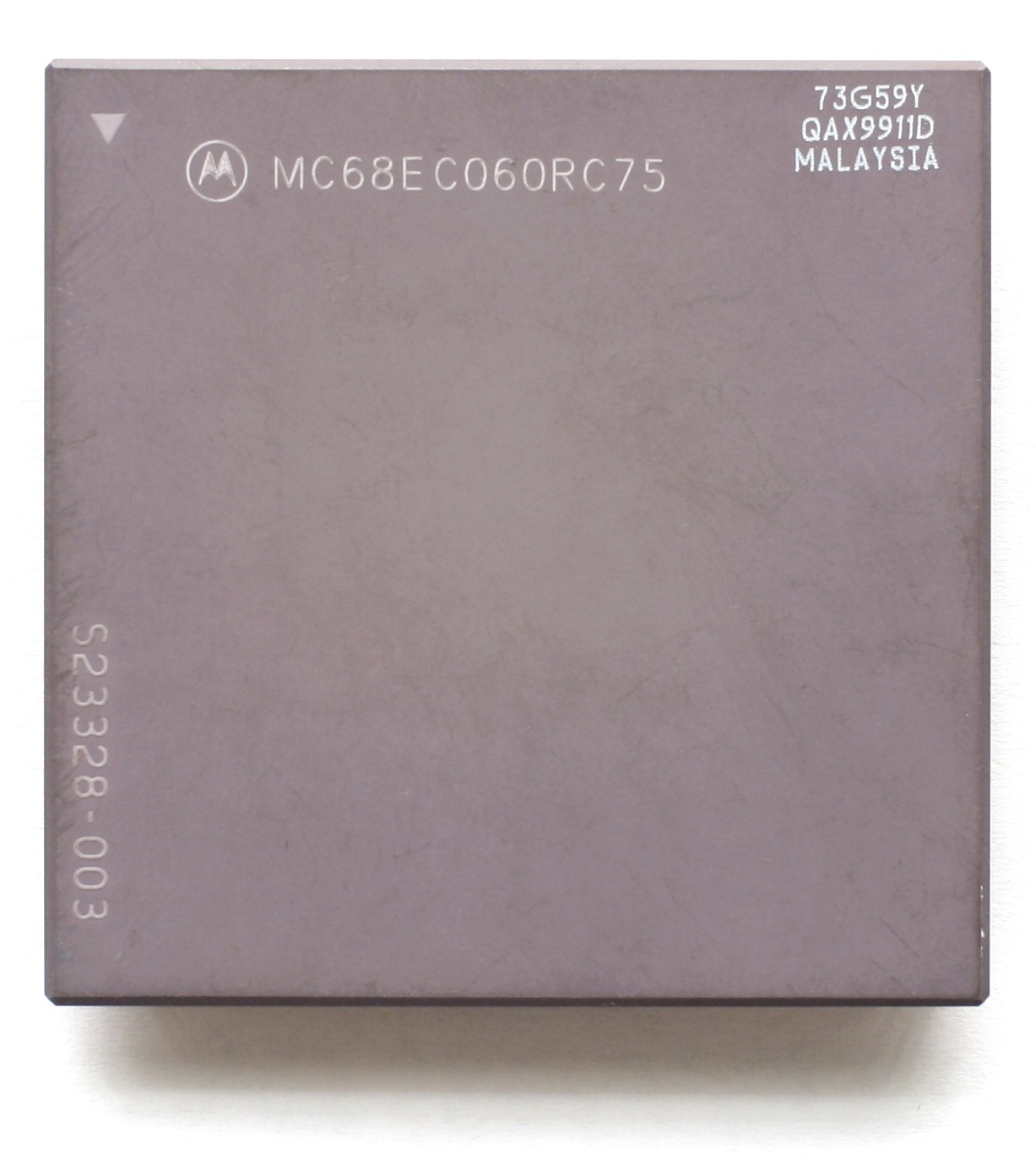 CPU Motorola MC68EC060